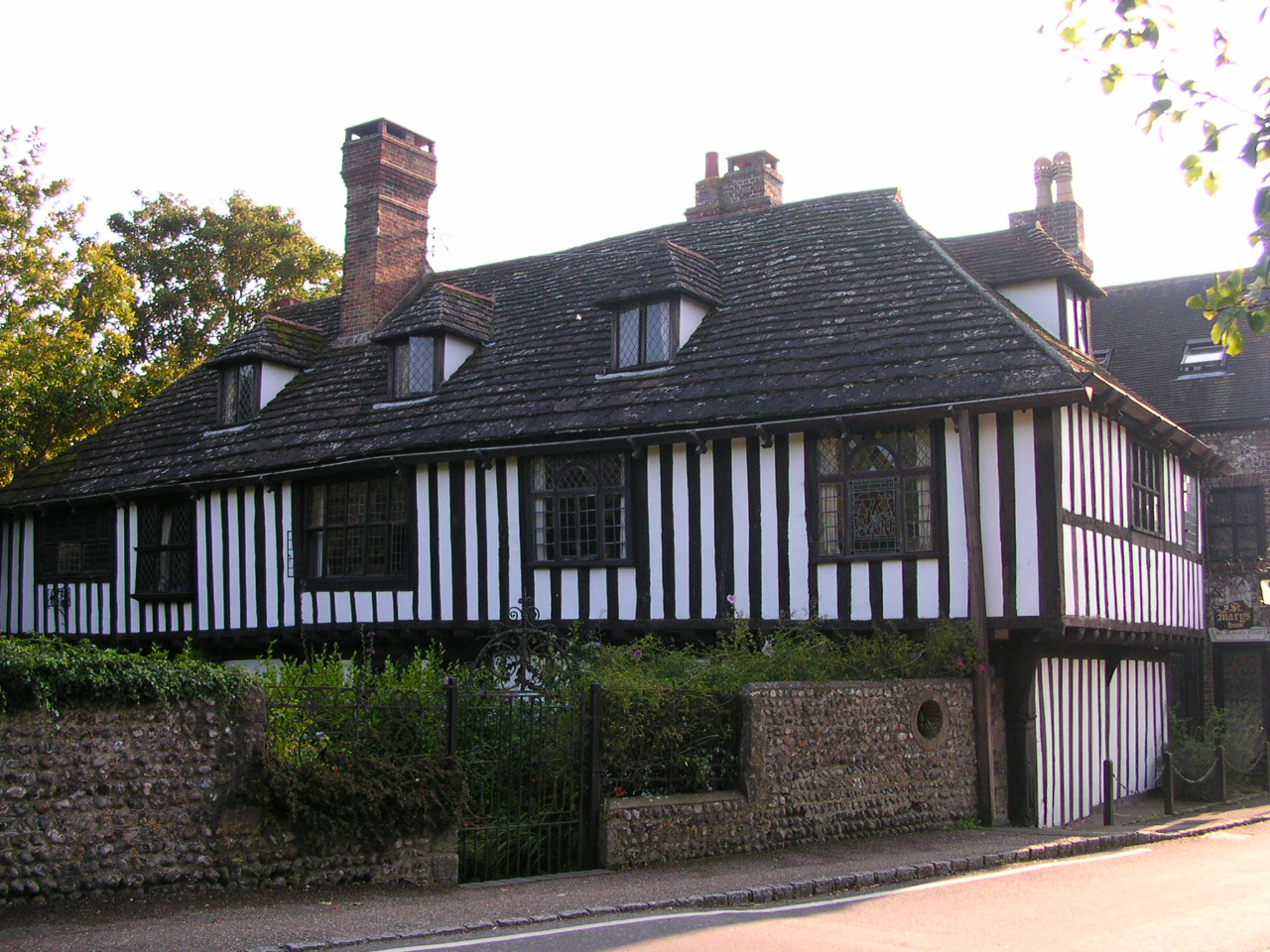 St Mary's House in The Street taken at Bramber, West Sussex in August 2007